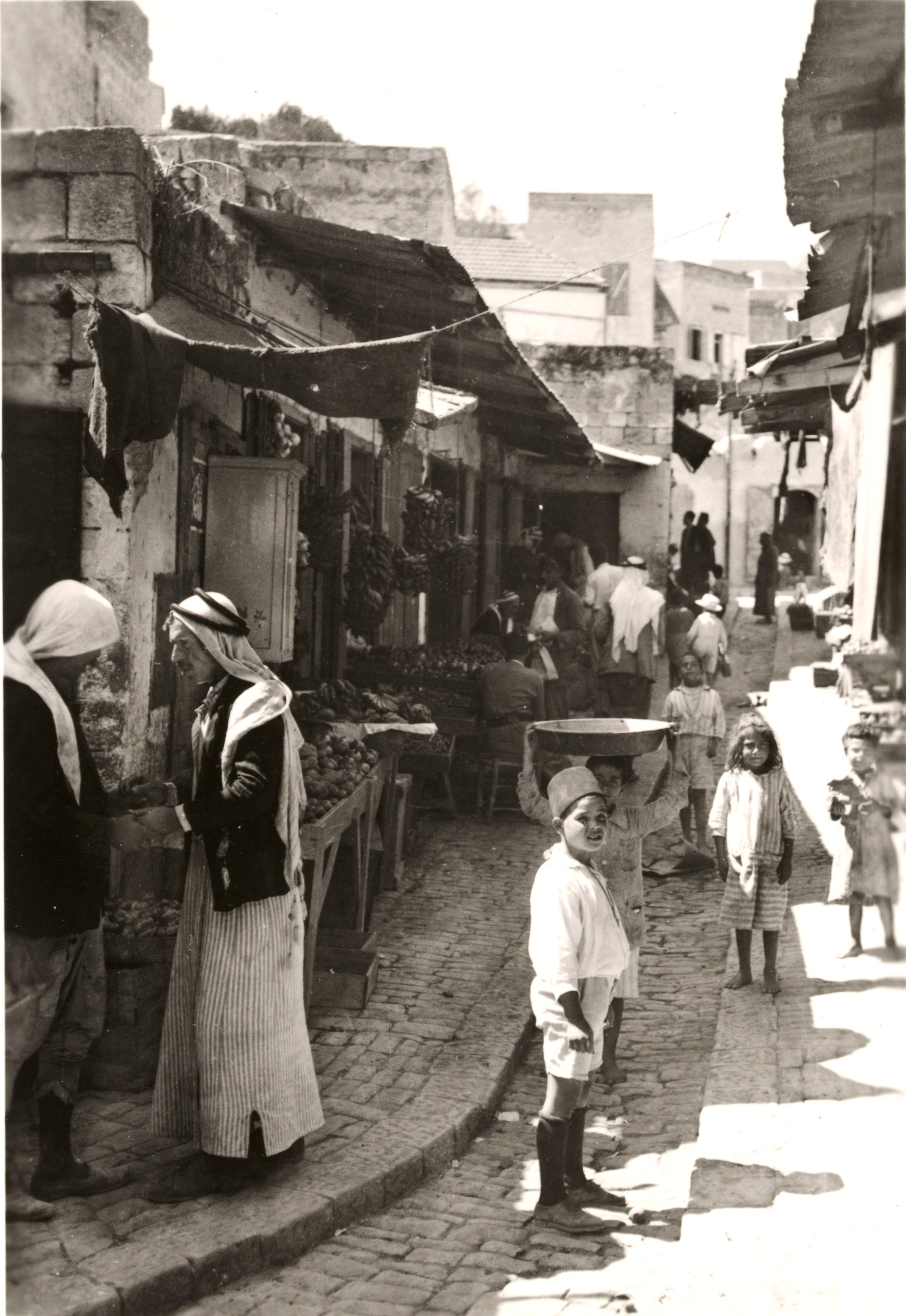 Street in older Nazareth, vegetable market